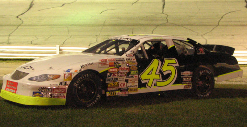 Michael Simko's ARCA car at Salem Speedway, Salem, IN Photographer: SimRacin40